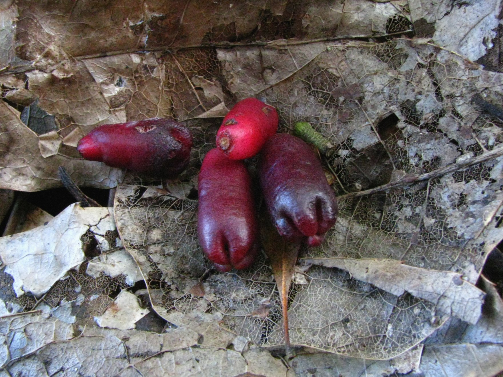 Clove Myrtaceae Not native to the Hawaiian islands Oʻahu (Cultivated) Fresh fruits fallen to the ground. They have a strong pungent clove flavor when ripe.